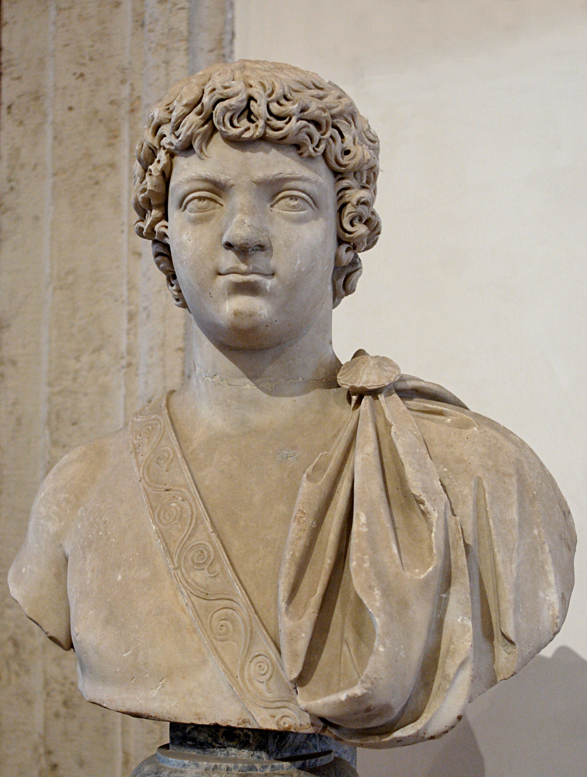 Bust of Caracalla as a child, of the type created in 198 AD for the designation as Augustus. White marble, 198–204 AD. From the Vestals' House at the Roman Forum, Rome.